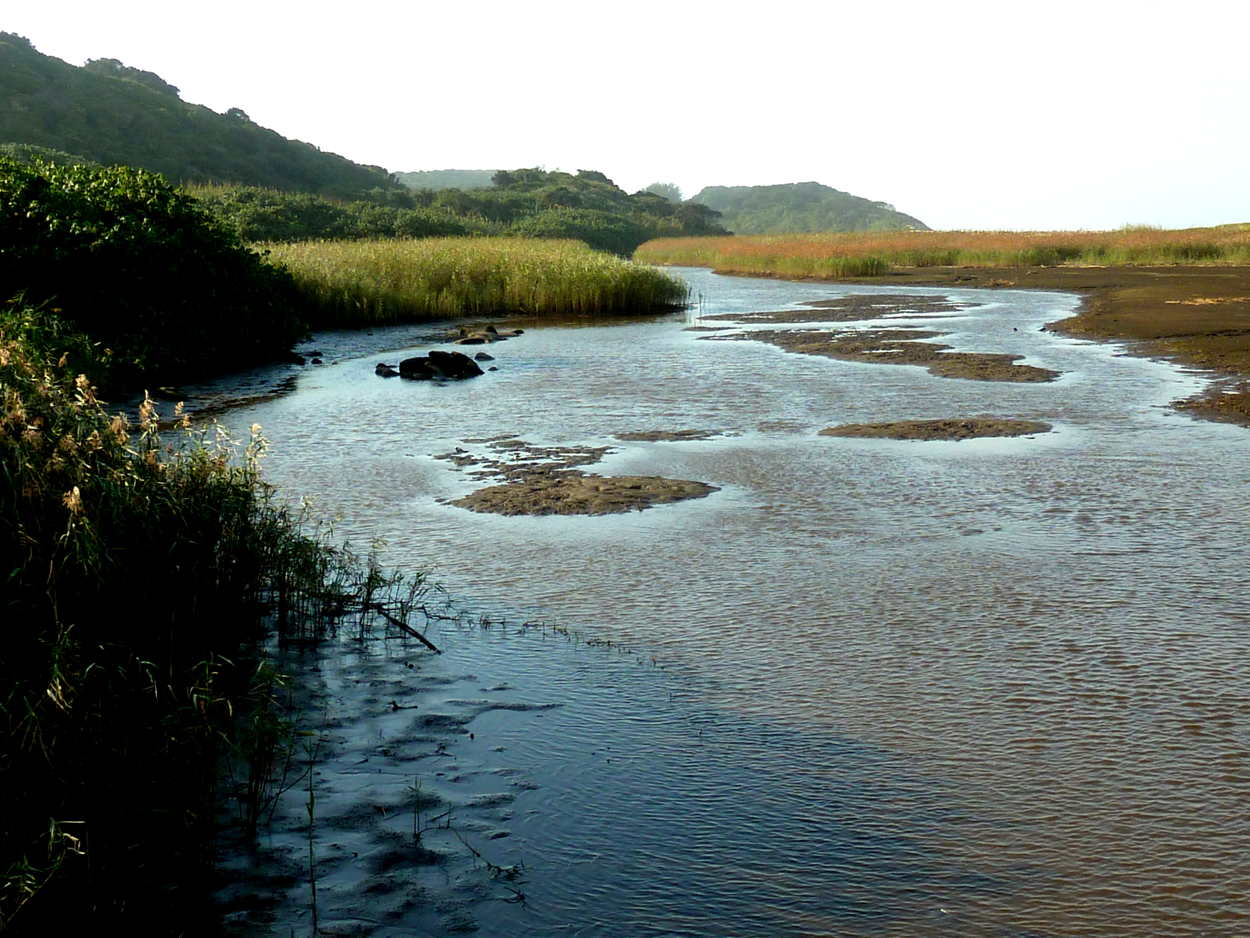 Ohlanga lagoon in the Umhlanga Lagoon Nature Reserve near Umhlanga, KwaZulu-Natal